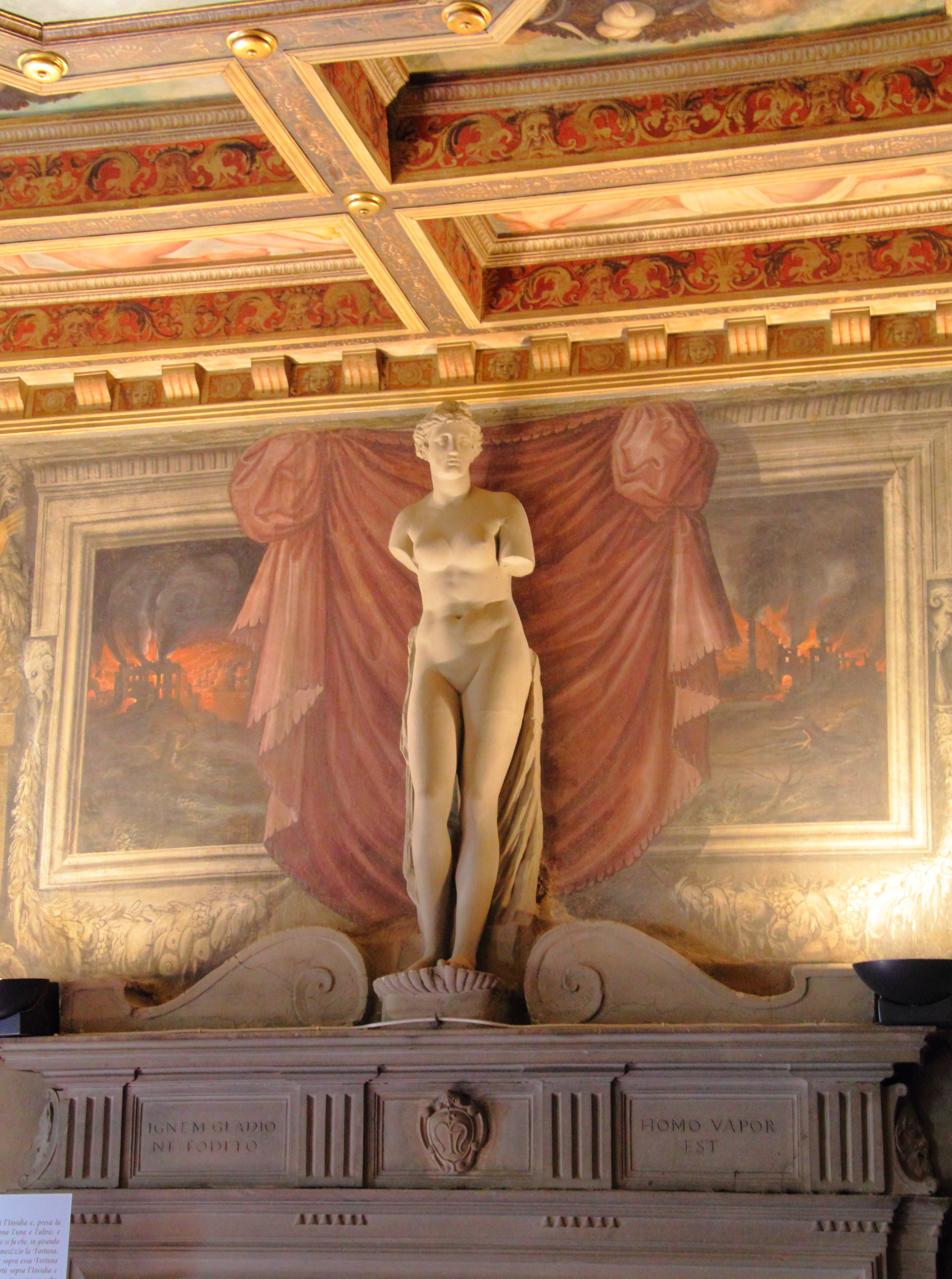 Arezzo, Italy: house of Giorgio Vasari